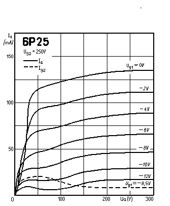 Typical tetrode characteristic